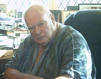 Sir Patrick Moore, English astronomer